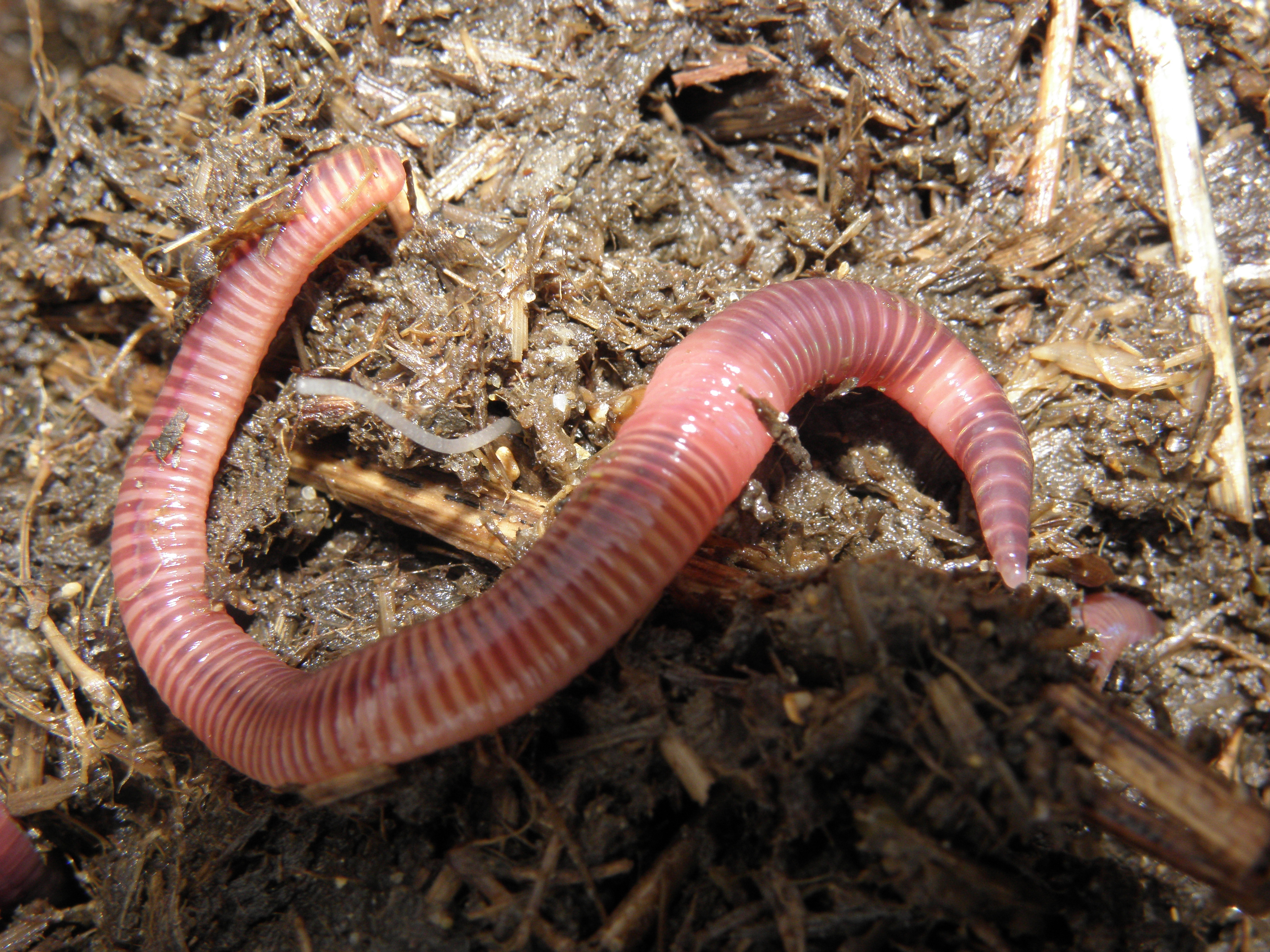 redworm